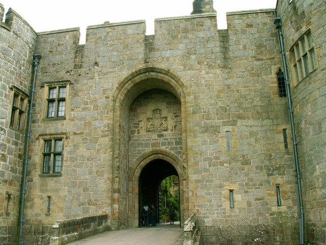 Chirk Castle. The main entrance to Chirk Castle